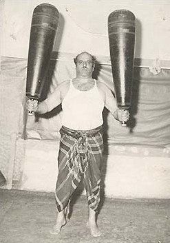 Phalavan Mustafa Toosi holding a pair of heavy clubs.